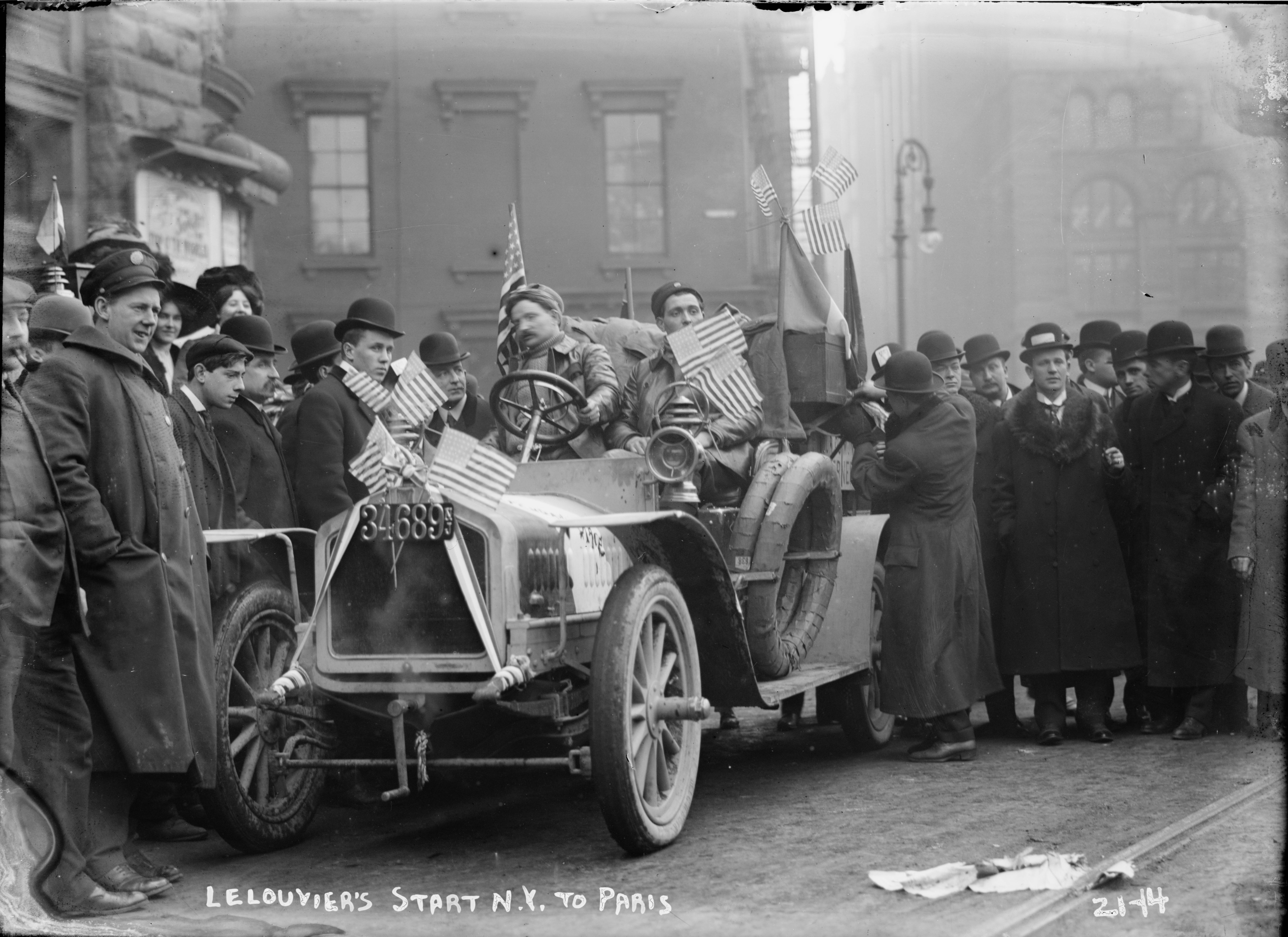 French Motobloc team with R. Maurice Livier in the co-driver's seat before the start of the 1908 New York to Paris Race; "Lelouvier" is a mis-spelling. Livier, just 19 years old at the time, participated as a driver and camera operator.